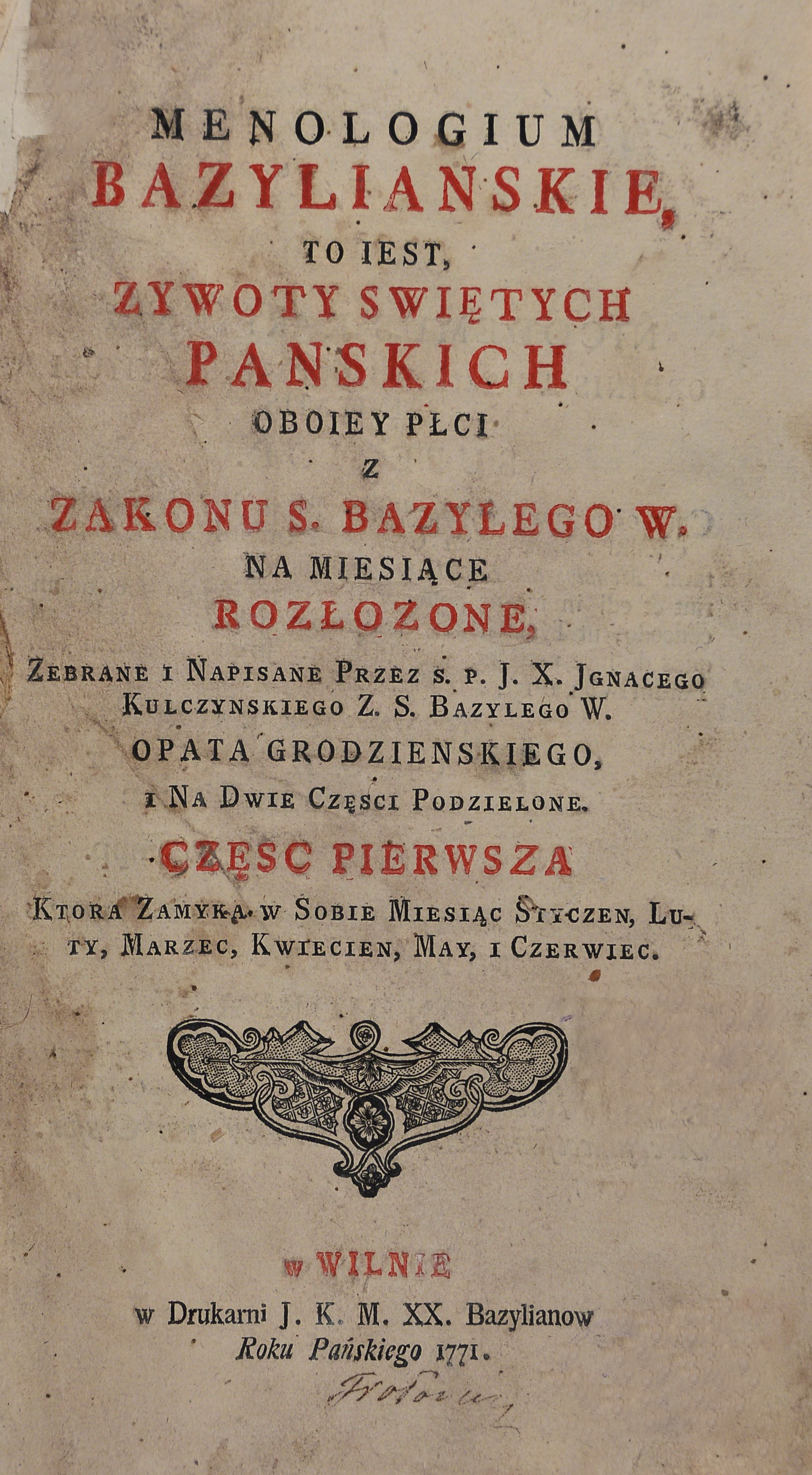 Title page of the book. Ignacy Kulczynski. Menologium bazylianskie. Wilno, 1771